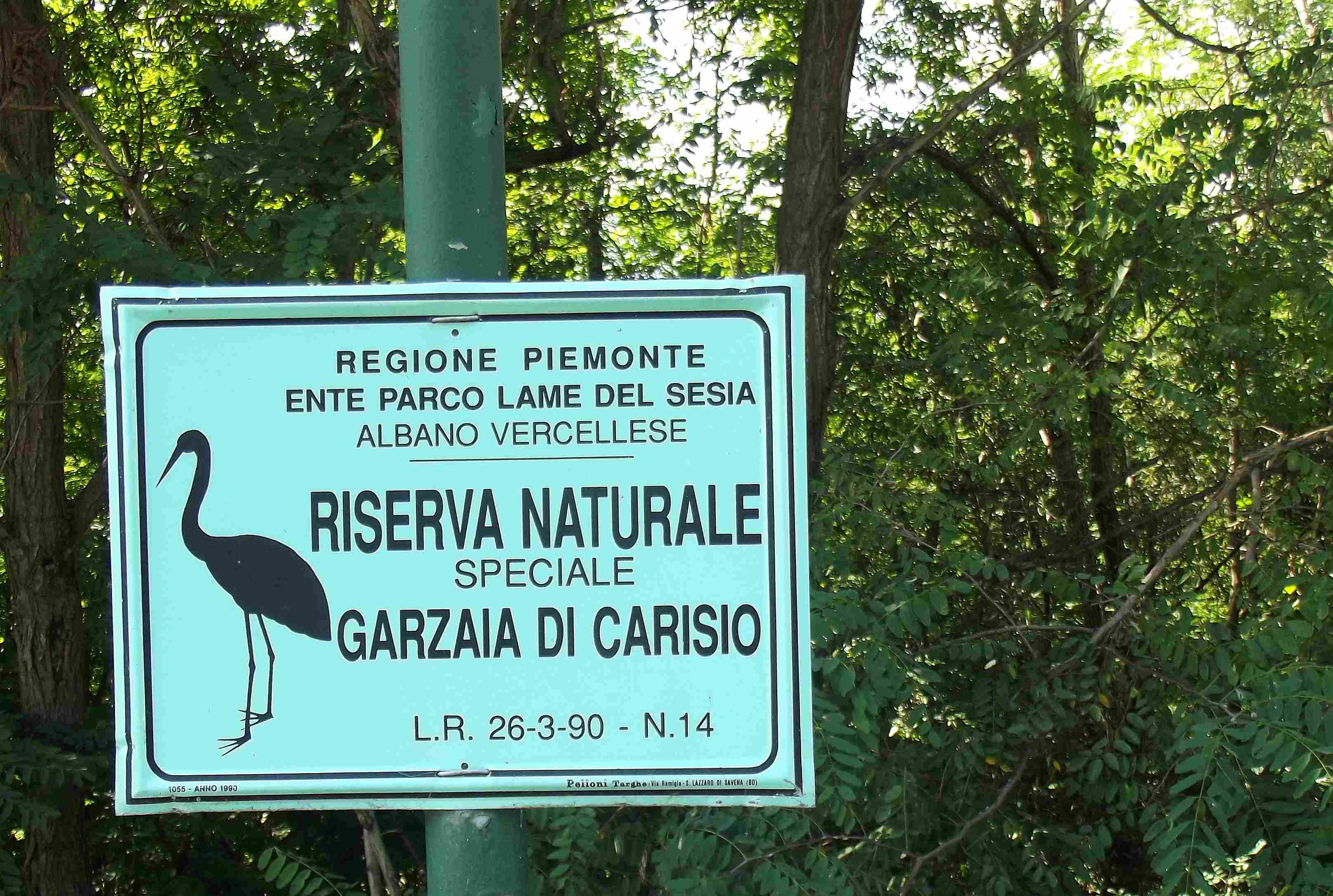 Sign of the Riserva naturale speciale della Garzaia di Carisio along the provincial road nr.3